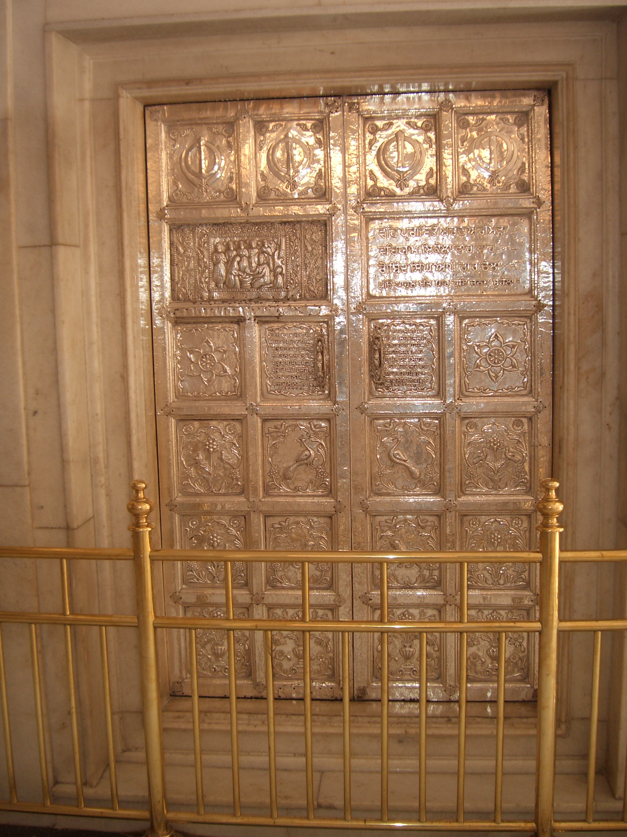 Golden doors depicting the history of the Khalsa.